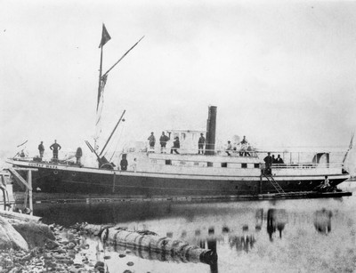 S/S Gustaf Wasa in Orsa, Sweden This is an image of the protected Swedish ship S/S Gustaf Wasa, with call sign SENR .